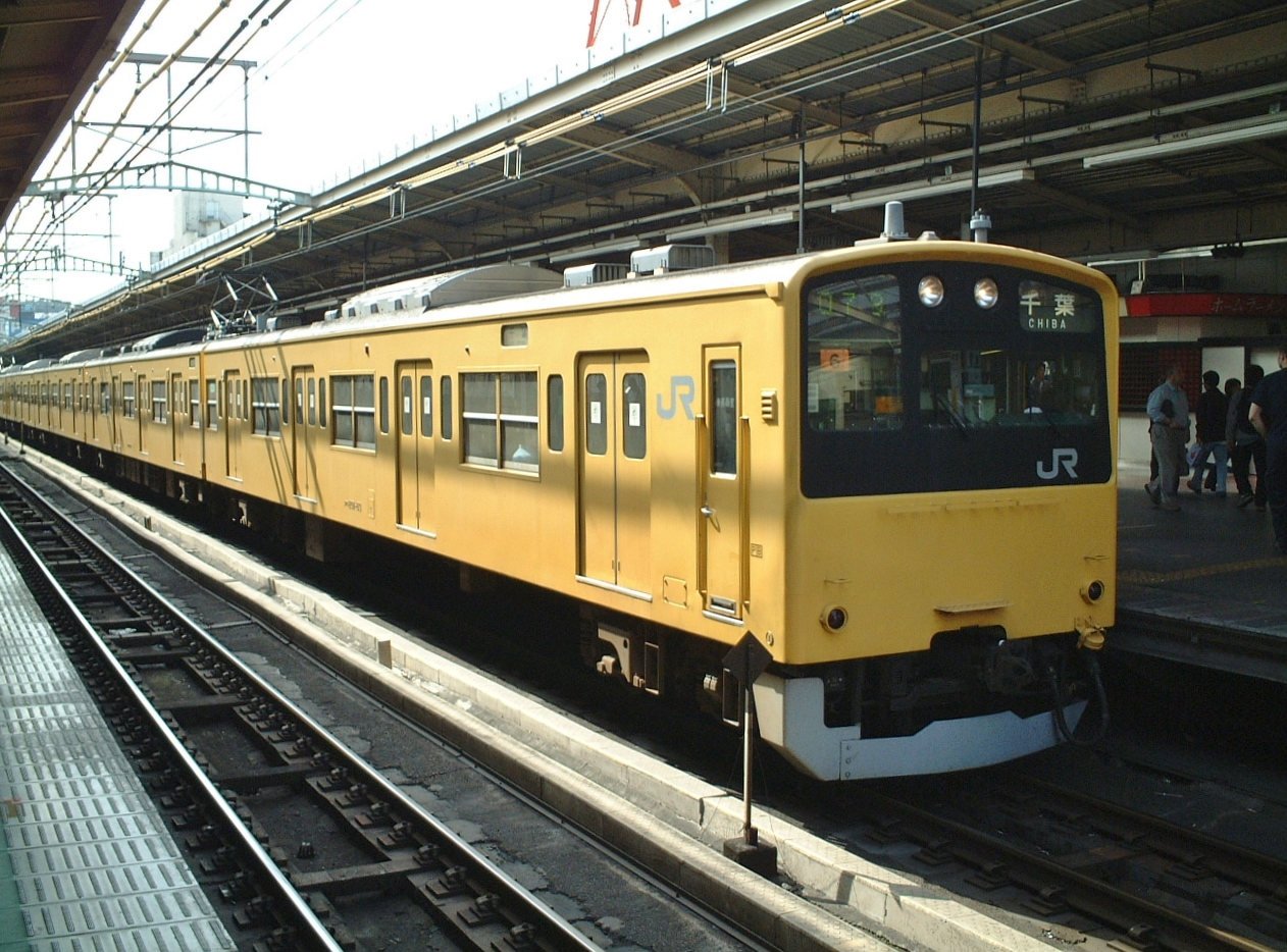 JR East 201 series EMU set 6 at Akihabara Station on a Chuo-Sobu Line service to Chiba